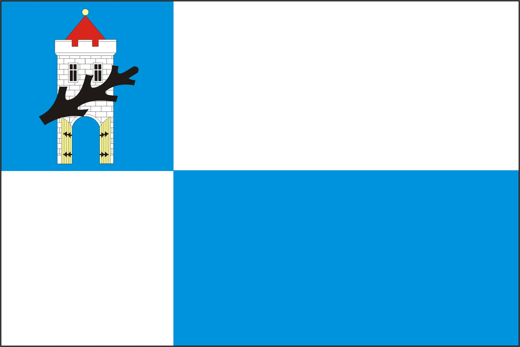 Municipal flag of Štětí town, Litoměřice District, Czech Republic.